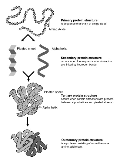 This image shows the structure hierarchy of Proteins